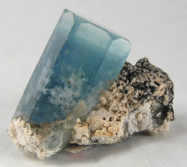 Beryl (Var.: Aquamarine) Locality: Erongo Mountain, Usakos and Omaruru Districts, Erongo Region, Namibia (Locality at ) Size: 3.6 x 3.1 x 2.4 cm. Look how beautifully this Erongo Mountains aquamarine sits up on the carefully-trimmed matrix! What is more, it is doubly-terminated. And, unlike many aquas from this locality, it is really gemmy through the top half, with a perfect, glassy termination.